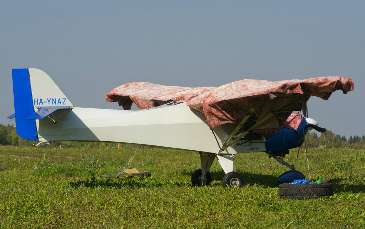 "Apollo Fox" HA-YNAZ